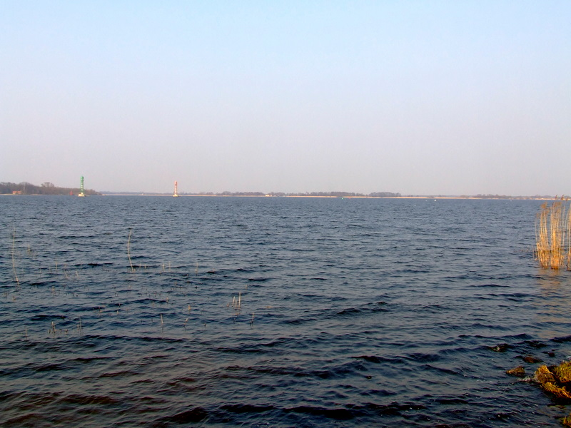 Oder Lagoon, Poland